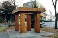 Kölner Tor (Bergheim)